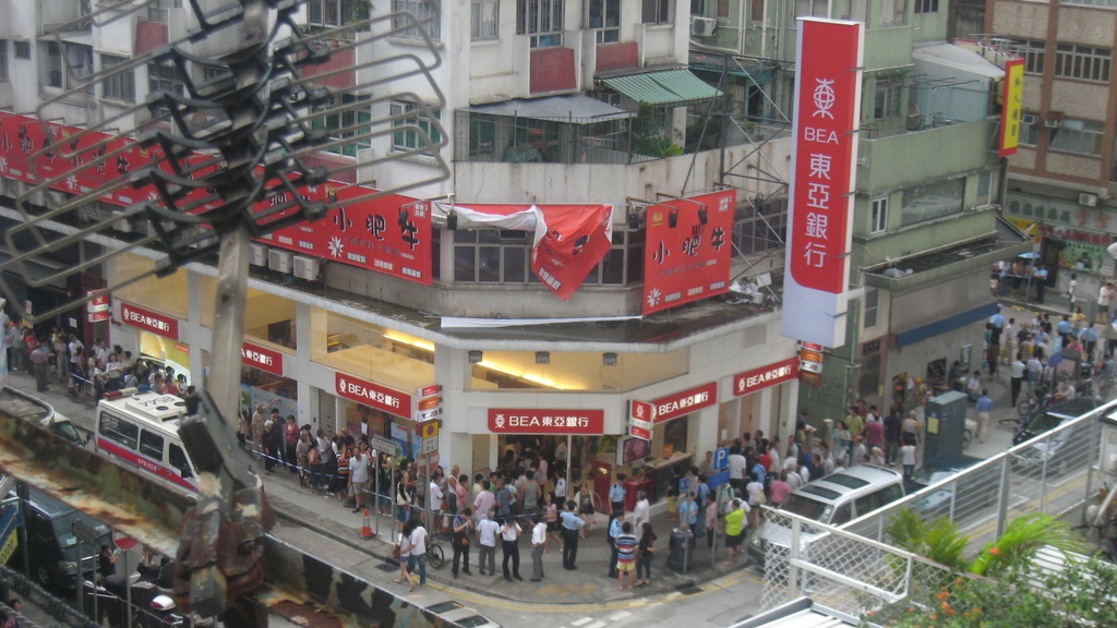 Response of malicious rumours of one of the branches of BEA on 24 Sept 2008